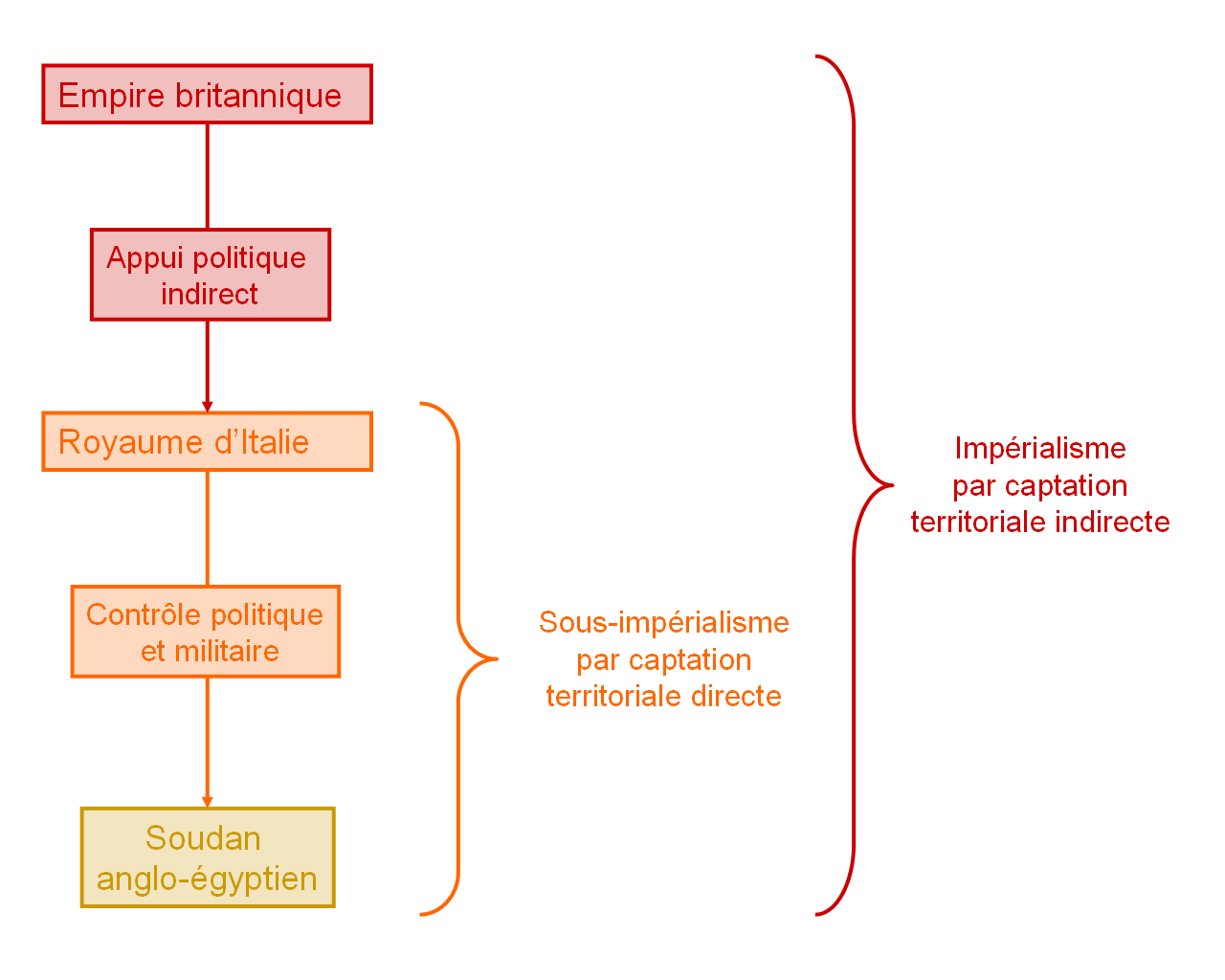 Imperialist model, with sub-imperialist constituent, of control with indirect territorial illegal securement within the framework of the empire colonial Italian.